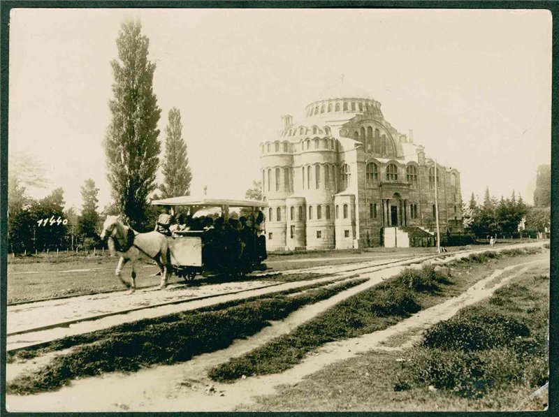 Poti Cathedral.